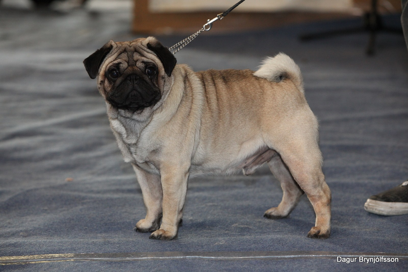 Dog show in October 2009